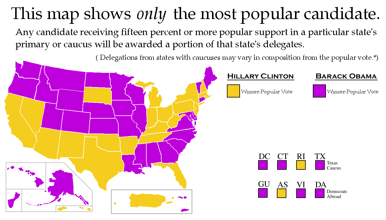 GU = Guam (below Hawai'i, left of Alaska) AS = American Samoa (island chain below and to right of Alaska) VI = Virgin Islands (right of Puerto Rico) This image uses the Palatino font family, except it uses FreeSerif for the boxes (DA, DC, etc.). Candidates names' font is CopprpGoth Bd BT.